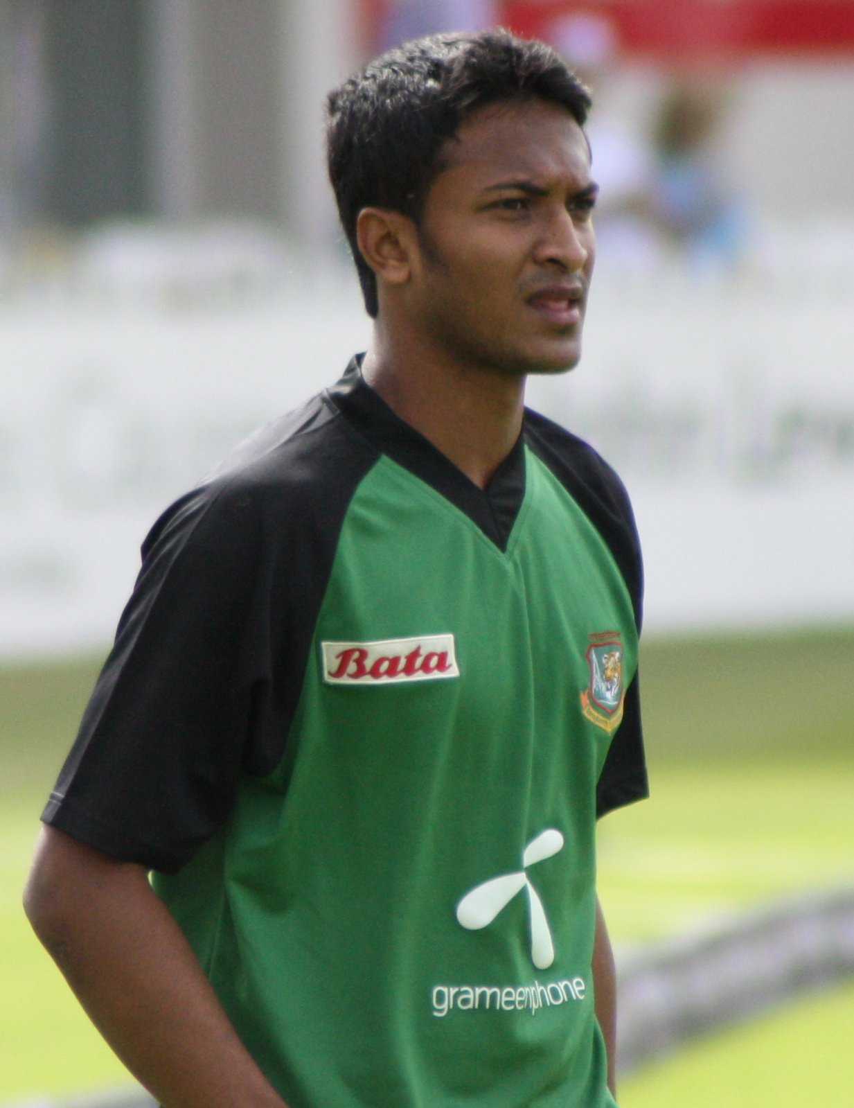 Shakib Al Hasan warming up prior to the 2nd ODI against England at the County Ground, Bristol. Bangladesh recorded their first victory over England in any form of cricket in this match.